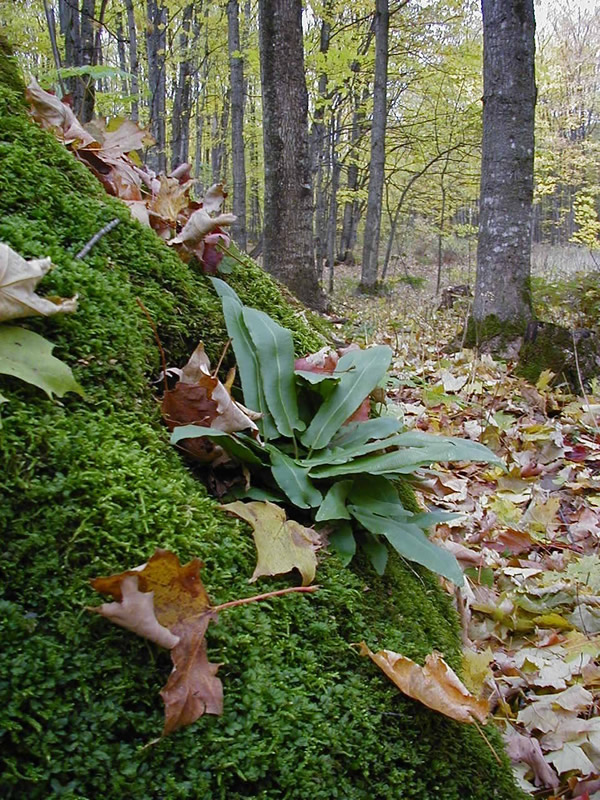 American Hart’s Tongue Fern (Asplenium scolopendrium L. var. americanum (Fern.) Kartez and Gandhi)